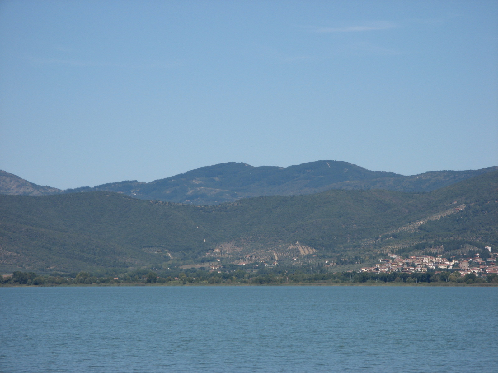 The battleground of the Battle of Lake Trasimene (217 BC), looking north, as seen from the Lake. The Roman army entered the natural amphitheatre through a defile on the far left and entered an open area skirting the north shore of the lake. The bulk of Hannibal's army was hidden in ambuscade within the wooded ridge in the foreground, with troops positioned to block the exits at both ends of the lakeside plain. Hannibal's left wing was positioned roughly in the location of the town (Tuoro sul Trasimeno).